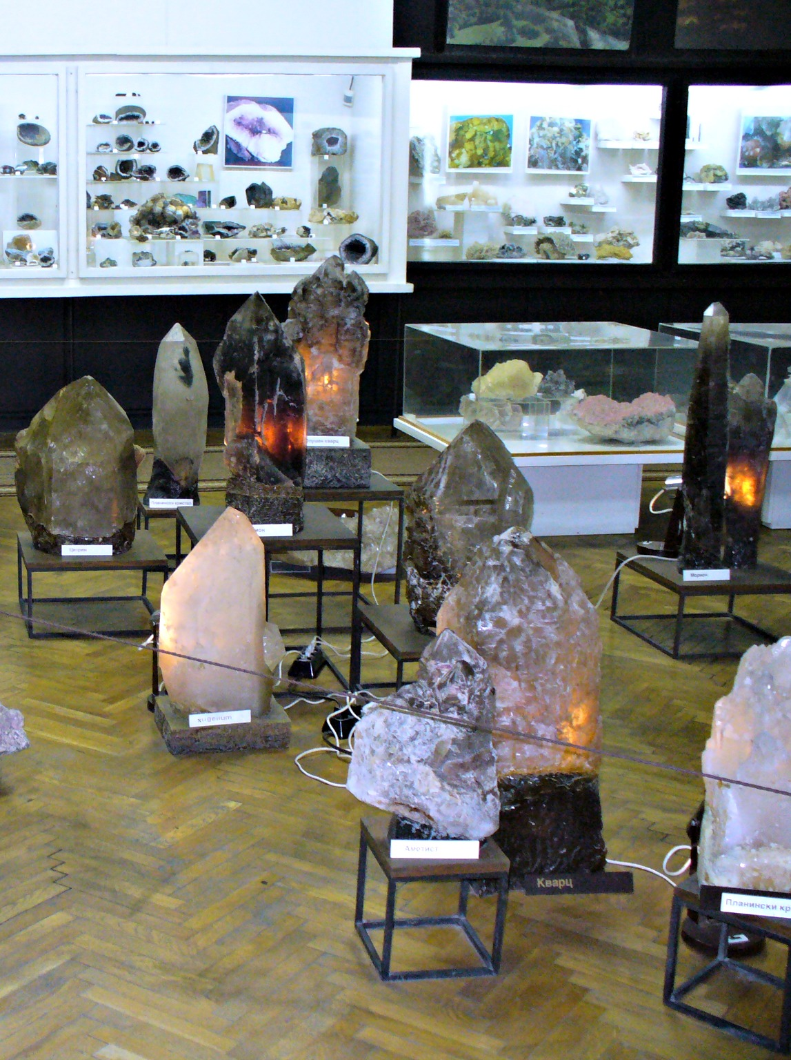 Minerals in the Plovdiv Museum of Natural History - citron, smoky quartz, hidenit, morion, amethyst, quartz, rock crystal